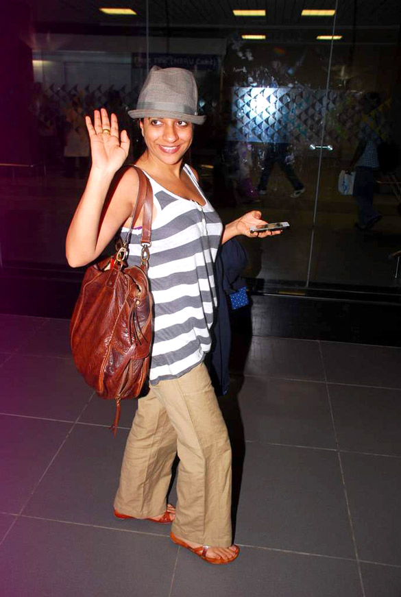 Zoya Akhtar returns from IIFA 2012